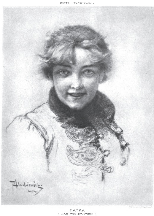 Basia Wołodyjowska